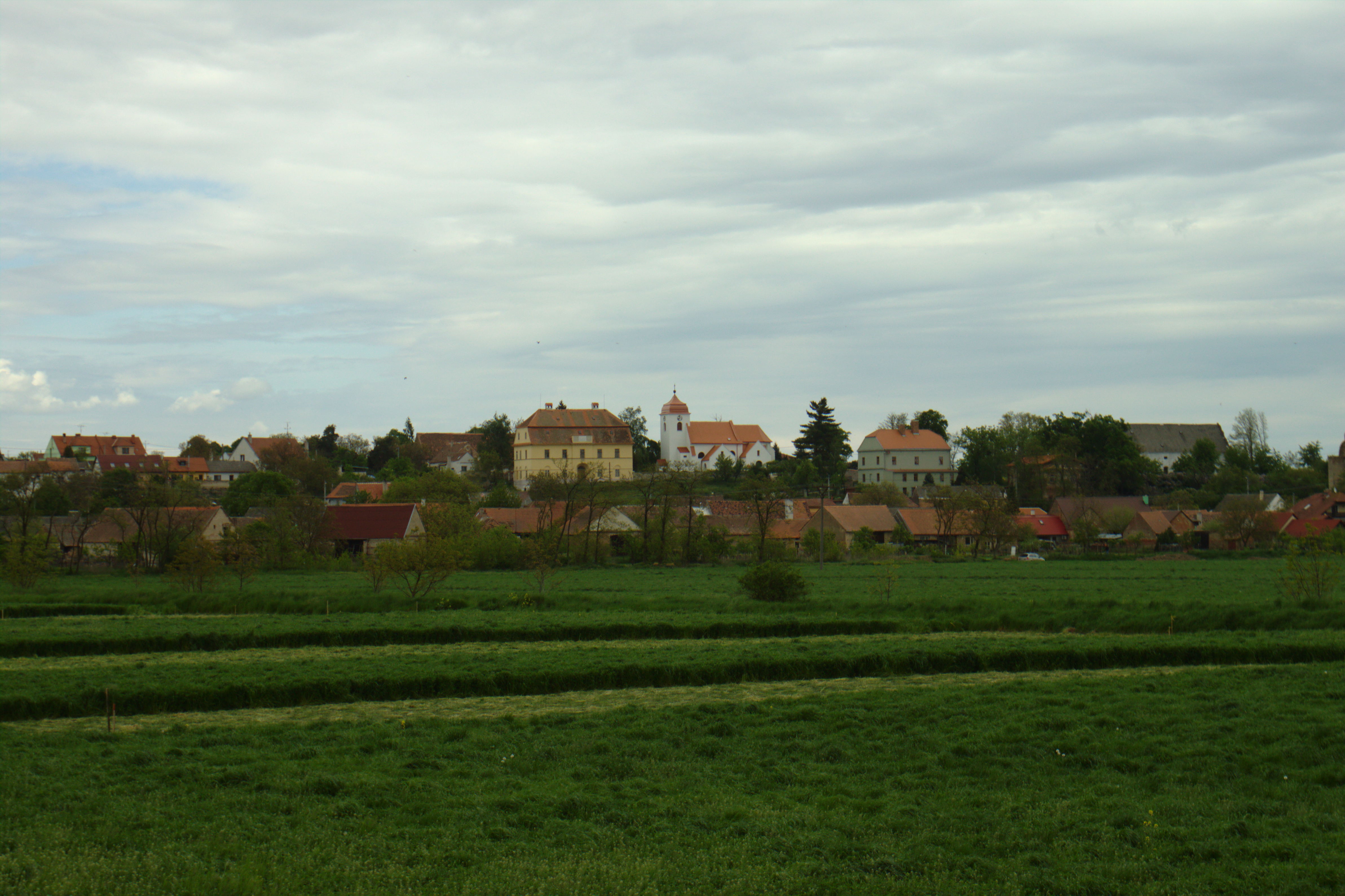 View of the village of Žerotice from the Jenišovka River, South Moravian Region, CZ